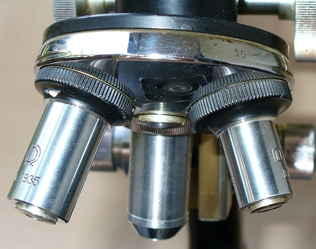 Microscope.